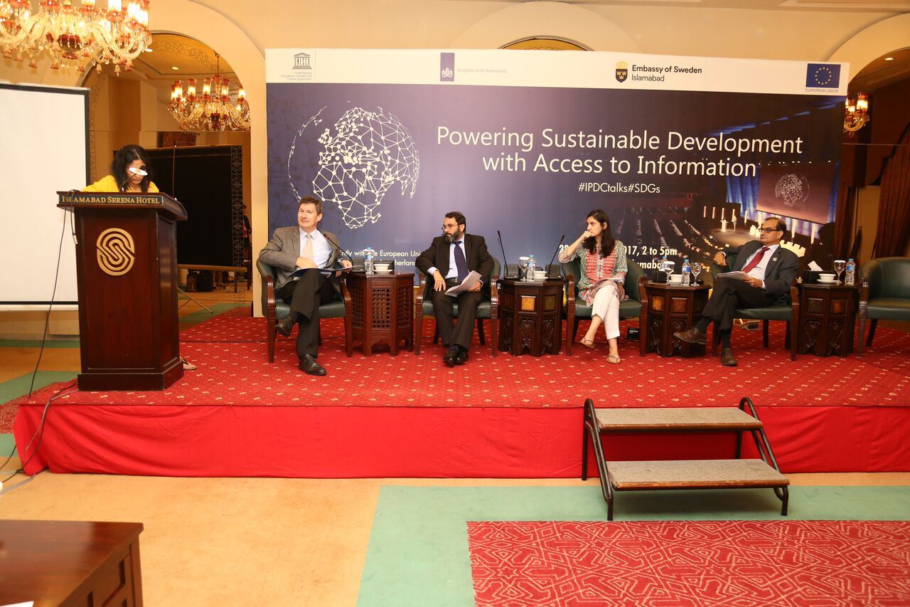 Islamabad. Haji Ahmad Naeem representing Punjab at a global event on Universal Day of Access to Information organized by UNESCO, EU, Netherlands & Sweden Embassy. (28 Sep. 2018)